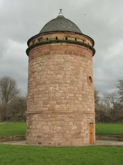 The Daldowie Doocot This doocot (the pigeonholes can be seen just under the roof) was built on the Daldowie Estate in about 1745, by a wealthy merchant named Bogle, to complement his recently-built country house. The doocot stands 12.4 metres high, and has a diameter of 6.2 metres. By June of 1999, the building stood in the corner of a sewage works; it had been vandalised, and was in very poor condition. By June of 2000, the building had painstakingly been dismantled, moved one kilometre to its present site, and restored; it is now located on a much more accessible site, close to Mount Vernon railway station (the railway line runs across the background of the photo).